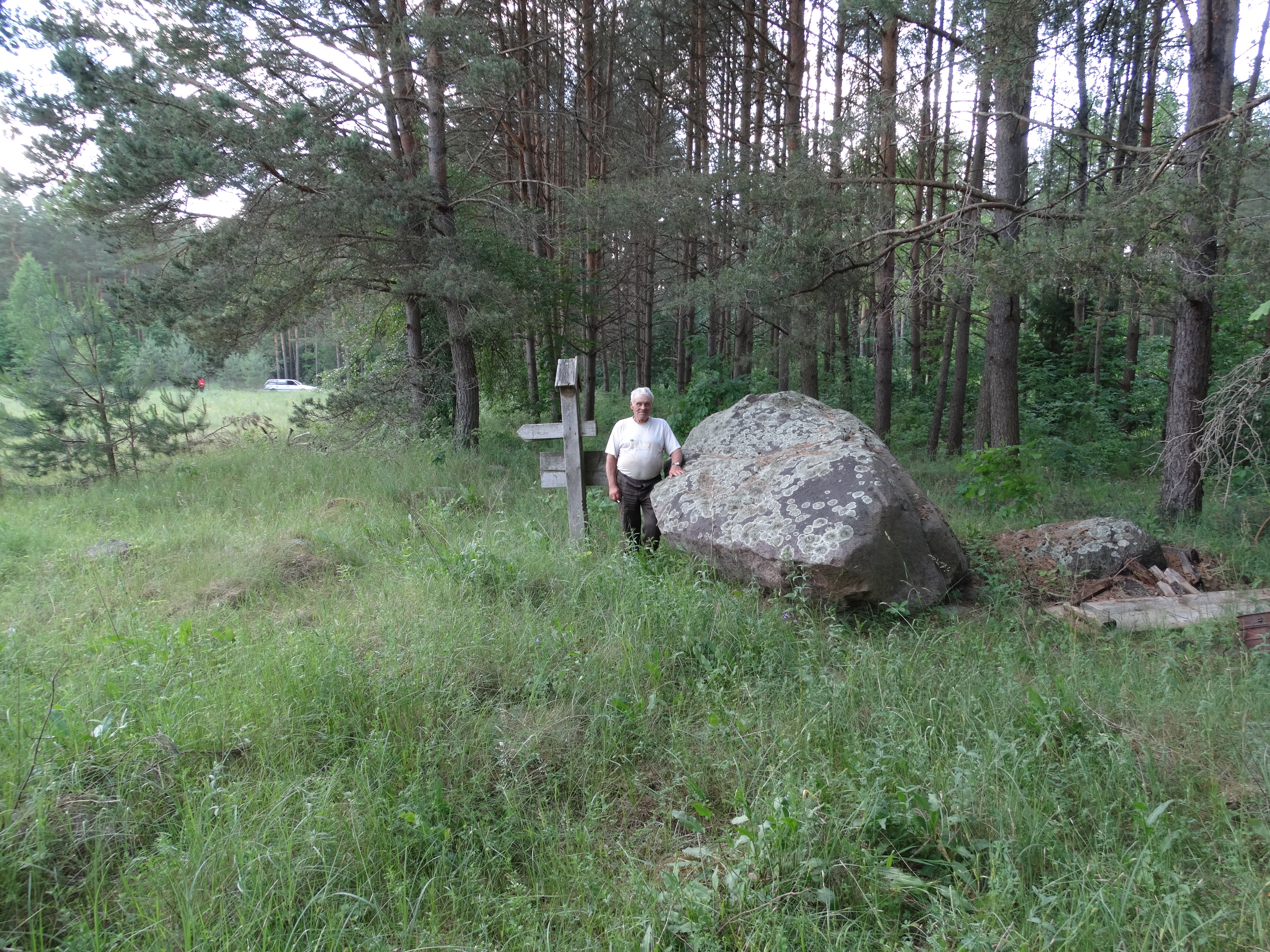 Boulder in Kopūstėliai, Ukmergė district, Lithuania